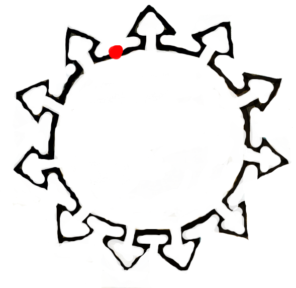 Location of the Kyrenia Gate in Nicosia City Walls.